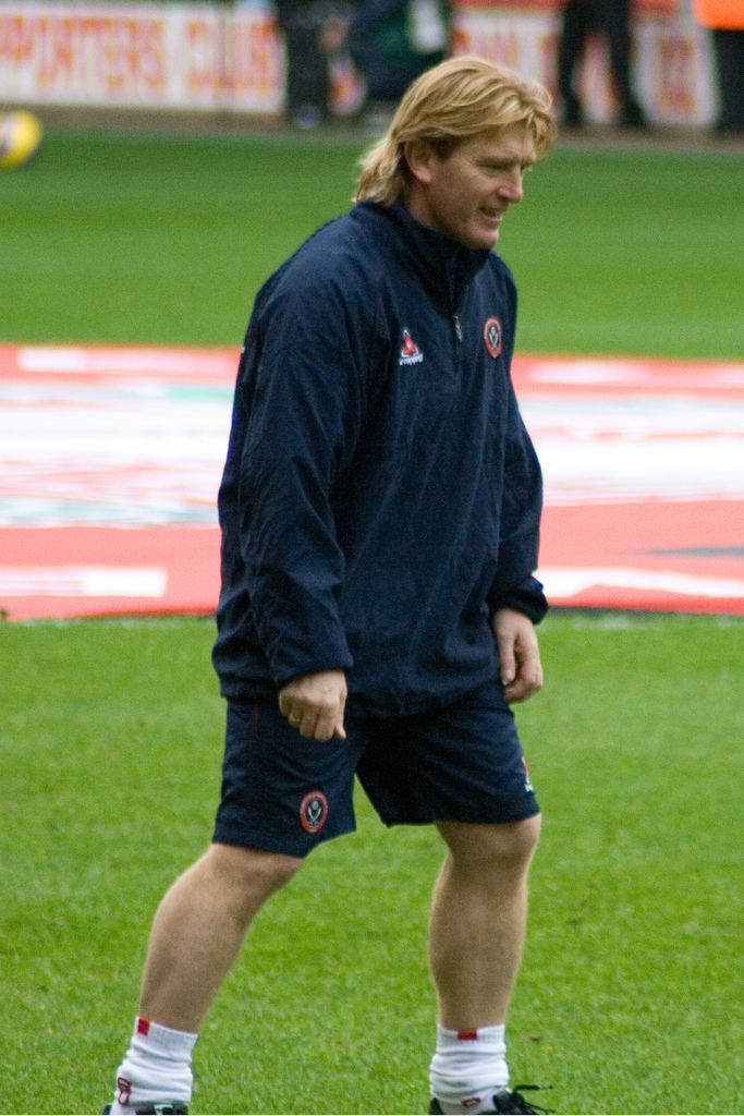 Stuart McCall, Sheffield United coach, warming up at Anfield before a game with Liverpool. Taken by Nigel Wilson